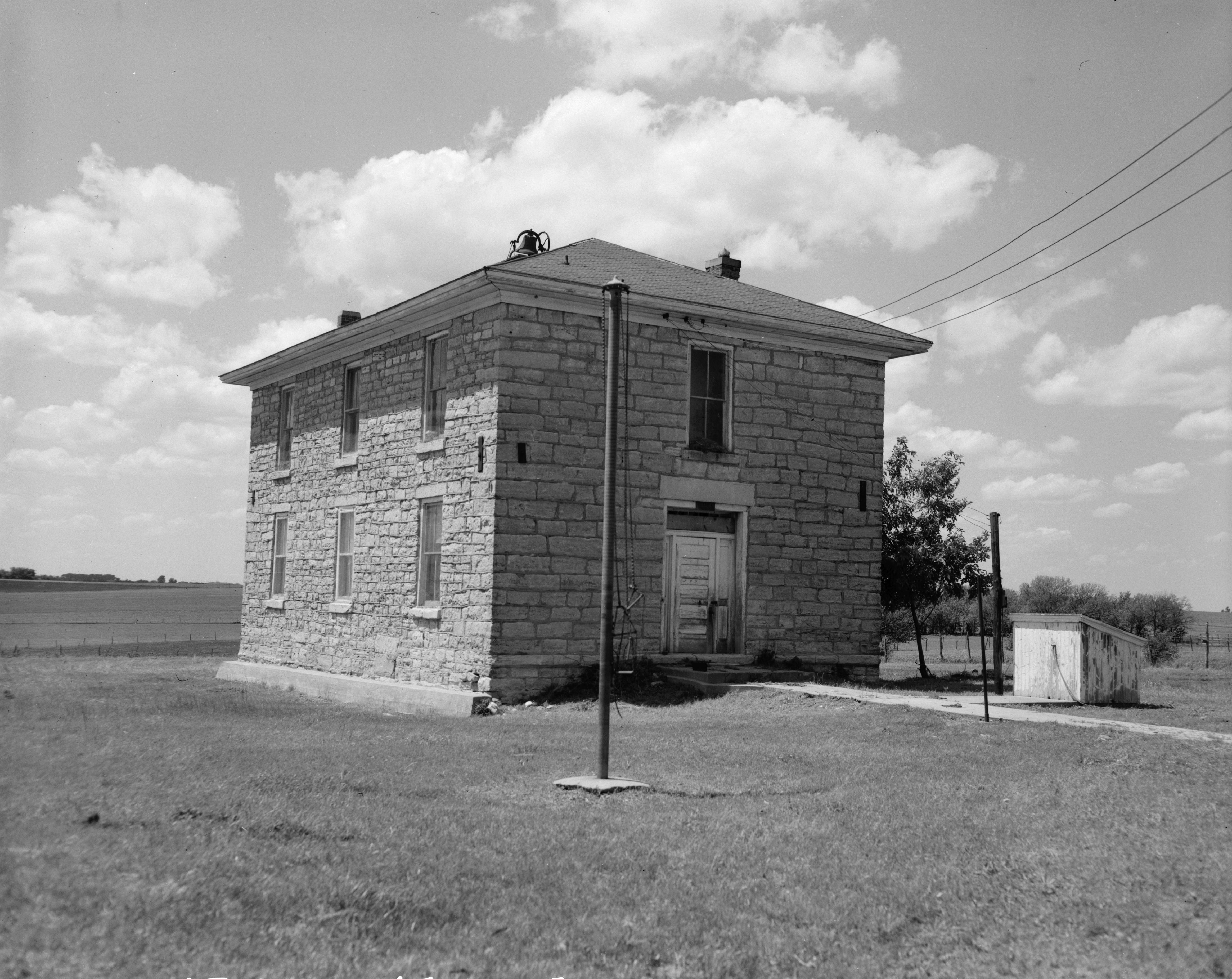 Front of the Old Albany Schoolhouse, located two miles north of Sabetha in Berwick Township, Nemaha County, Kansas, United States. Built in 1866, it is listed on the National Register of Historic Places.